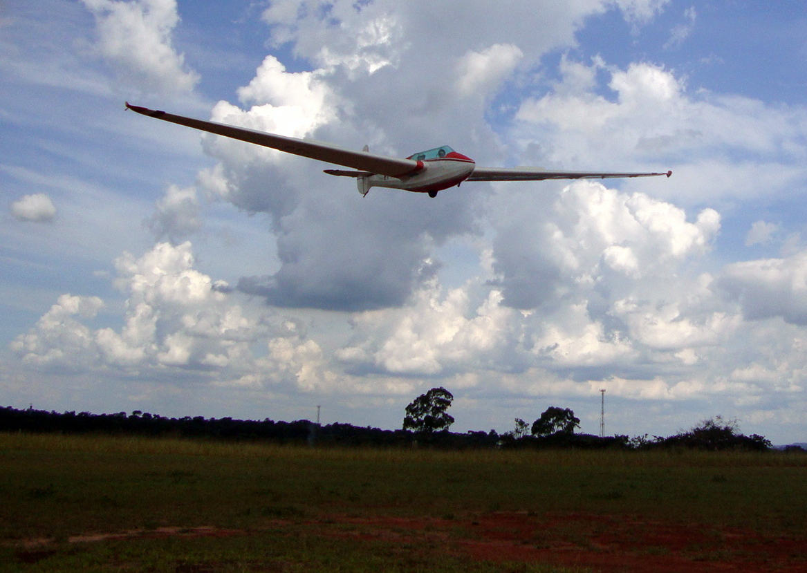 A LK-10 sailplane in operational status located in Bauru, Brazil.